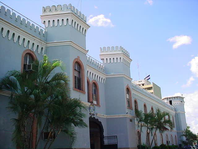 Building of the command of the Armed Forces of Honduras — in Tegucigalpa.